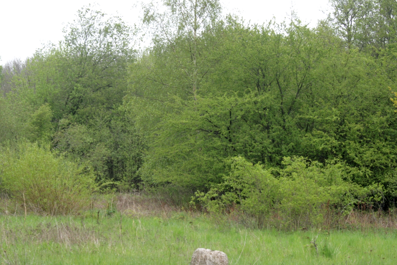 At the small nature reservation on the island of Vorsø, Denmark, all cultivation of the fields was terminated i 1978. Since then secondary succession has created this type of a mixed forest.